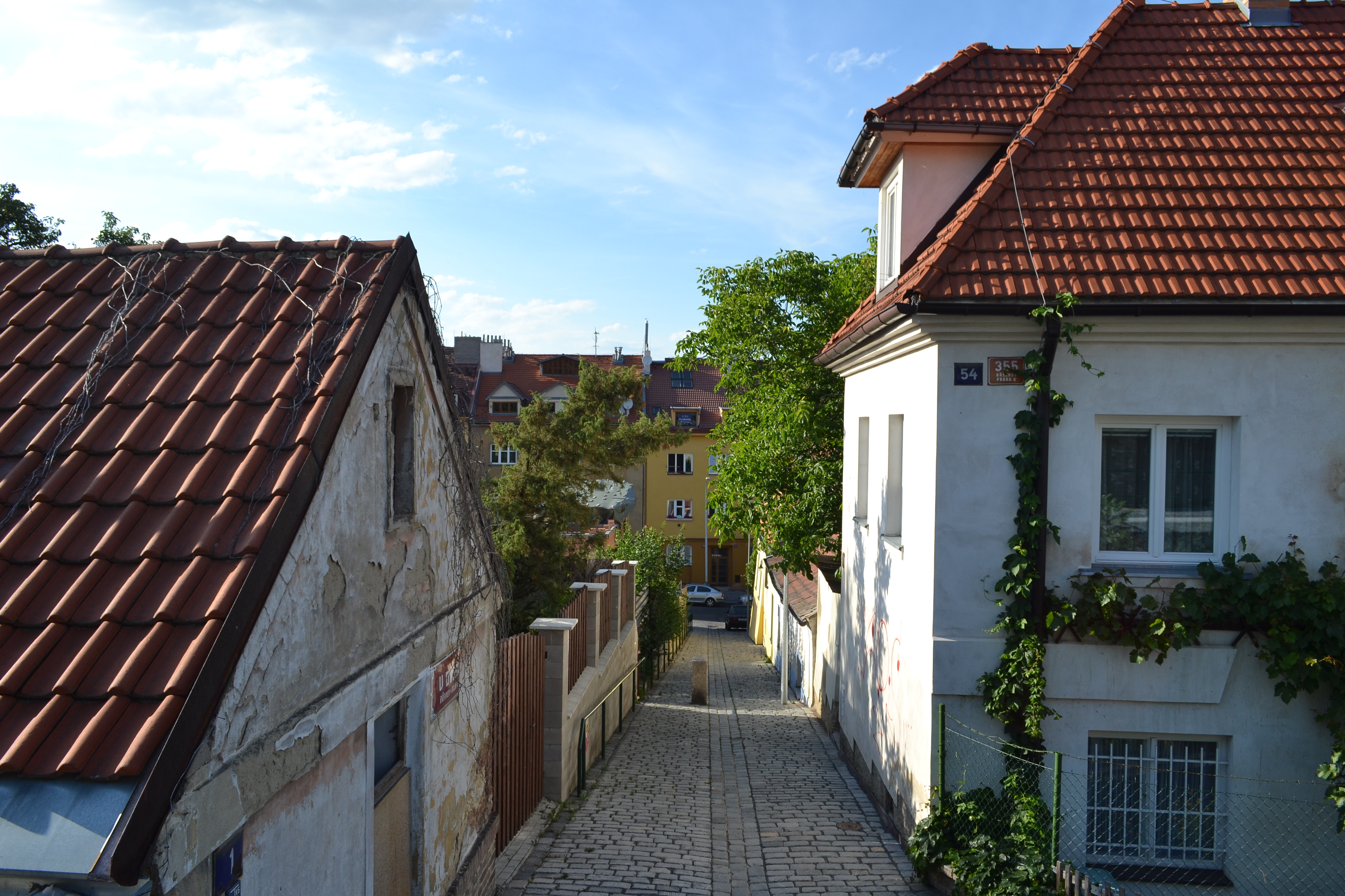 Street U Dvora in an area called "Tejnka" in Břevnov, Prague, Czech Republic.